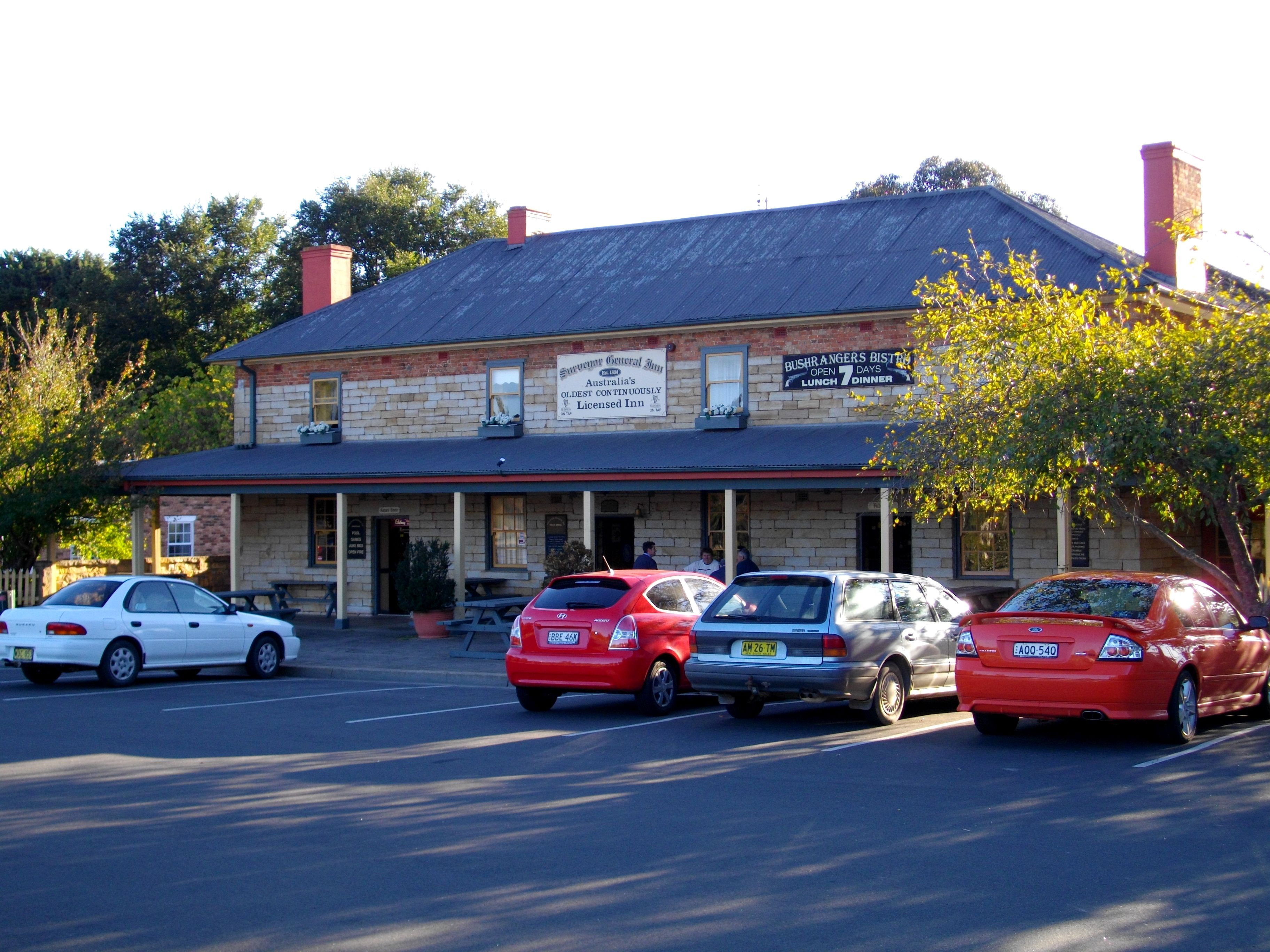 The Surveyor General Inn at Berrima, NSW, established in 1834, claims to be Australia's oldest continuously-licensed inn